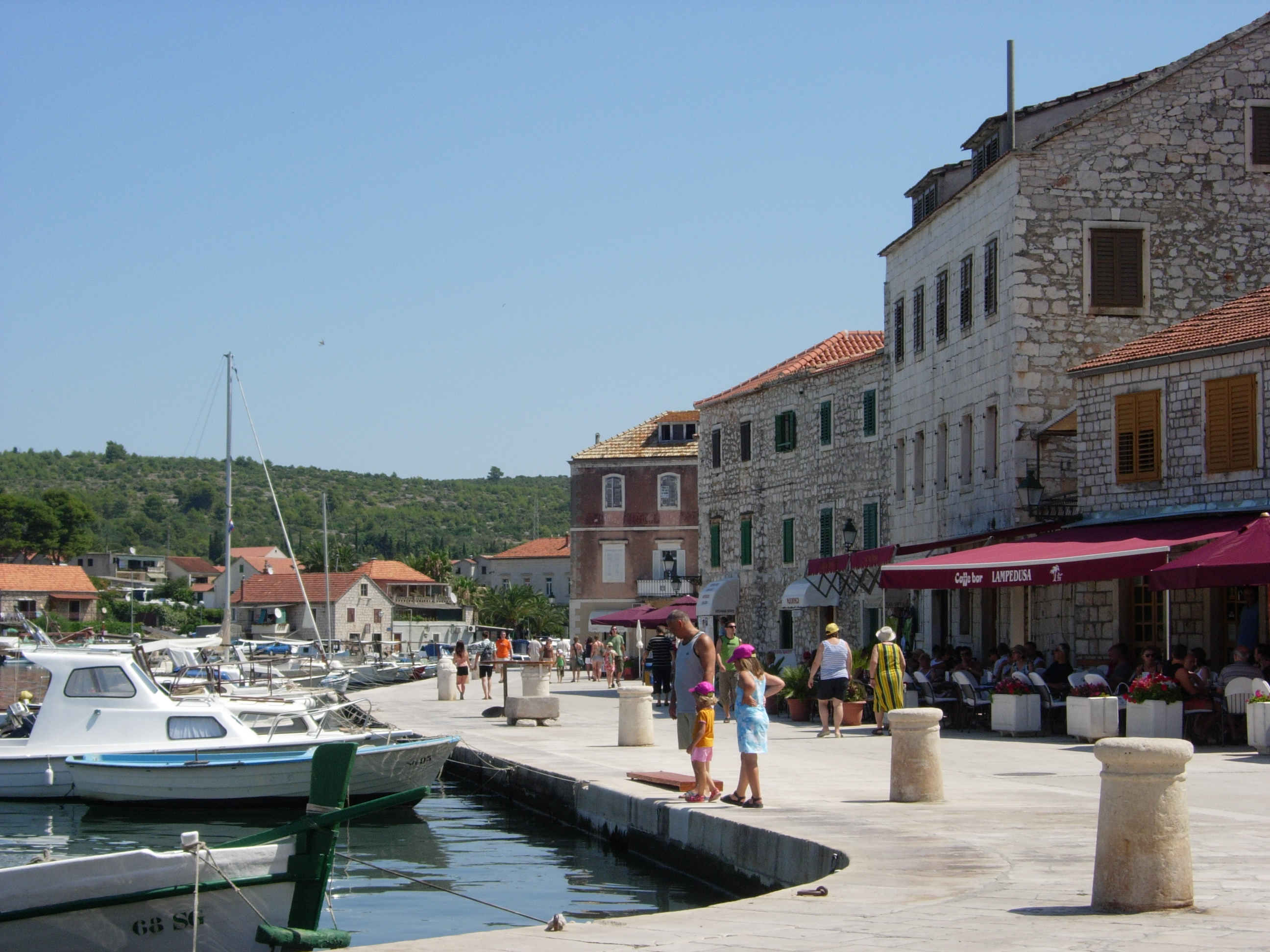 Riva of Stari Grad.